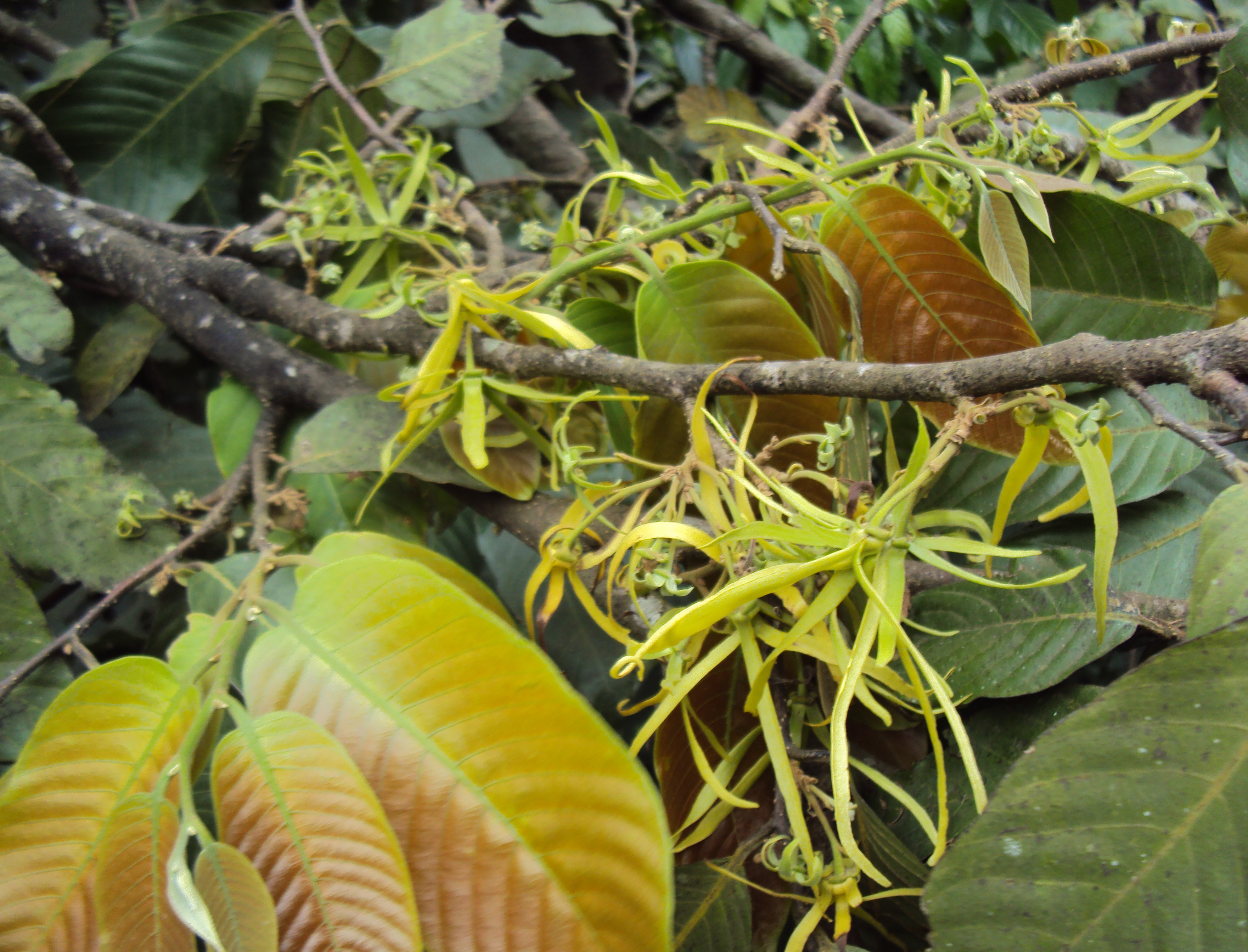 Polyalthia fragrans - Guatteria fragrans